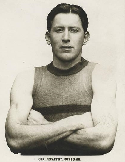 Portrait of Footscray Captain Con McCarthy from 1923.